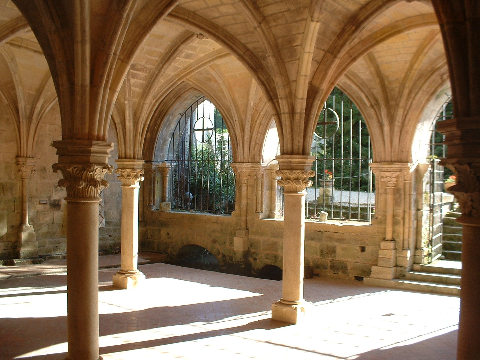 The Chapter House of the Abbey of Fontdouce, near Saintes, in Charente-Maritime (France).